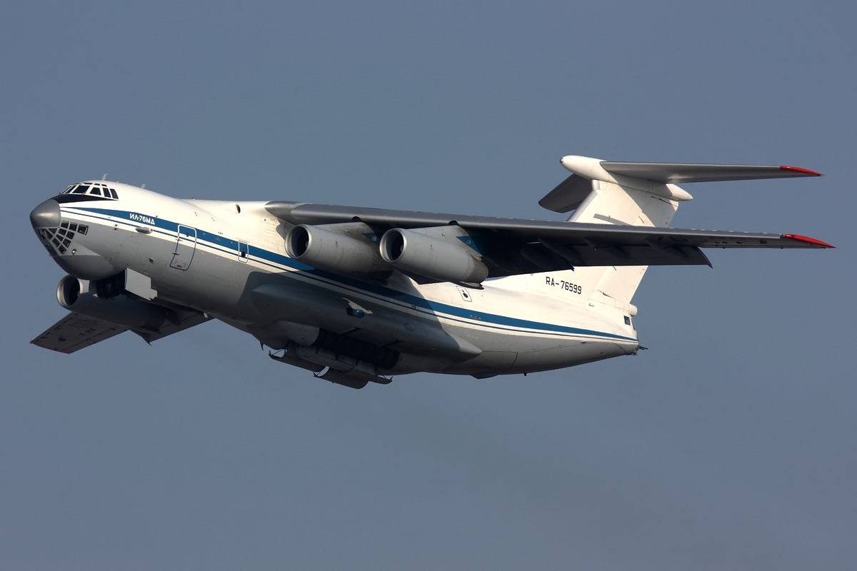 Russian Air Force Ilyushin Il-76MD